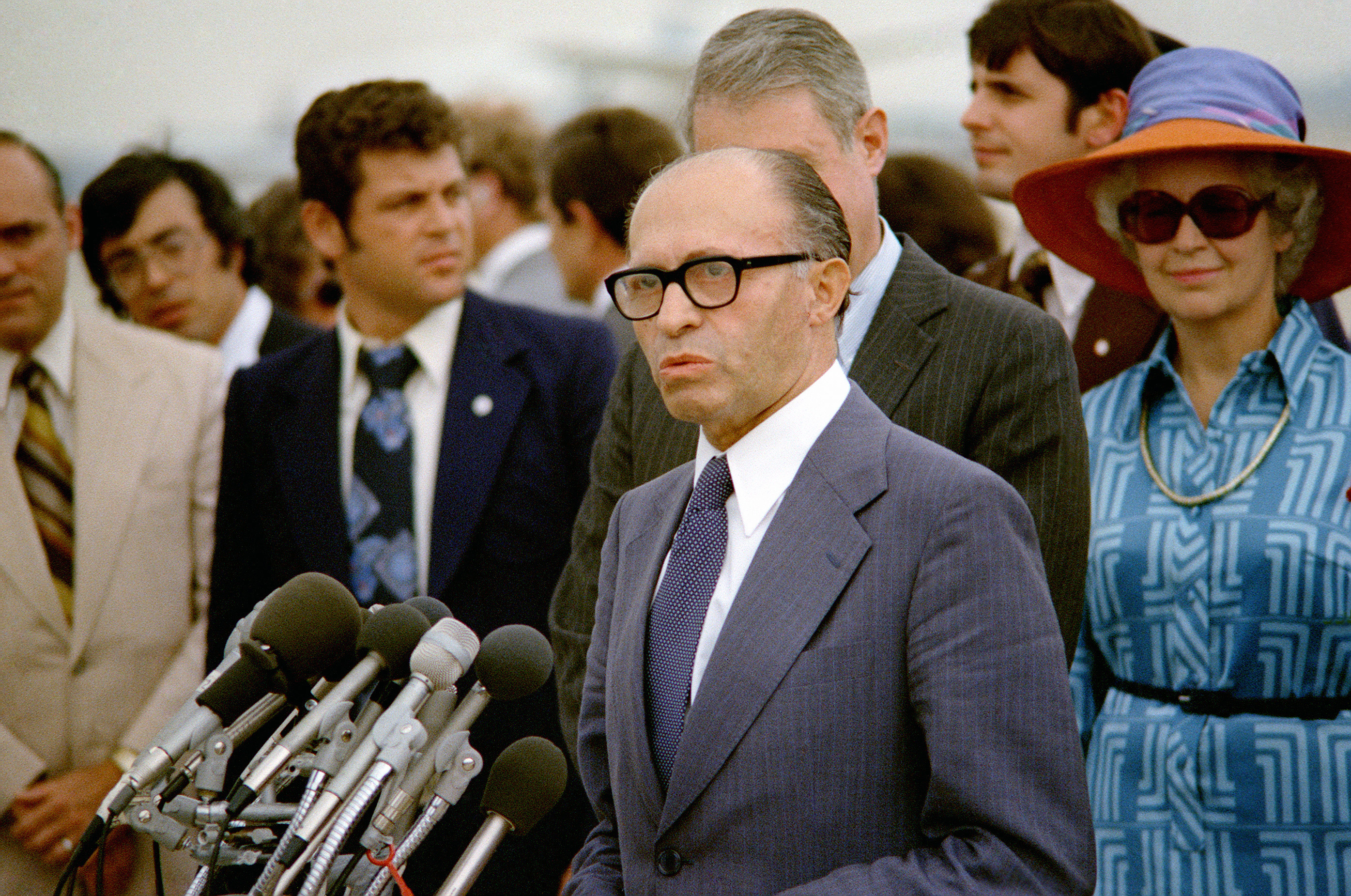 Israeli Prime Minister Menachem Begin delivers an address upon his arrival in the US for a state visit. Location: Andrews Air Force Base, Maryland.